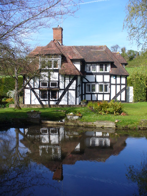 Cottage by Loose Stream Half-timbered cottage facing the Brooks Path. The stream once powered a water mill.